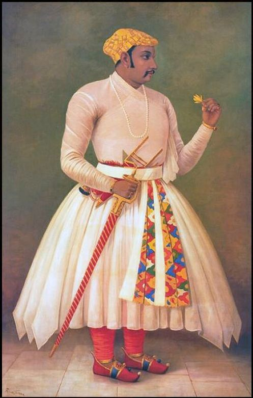 Painting of Maharana Amar Singh - I of Mewar (1597-1620) based on miniature made available to artist from palace.